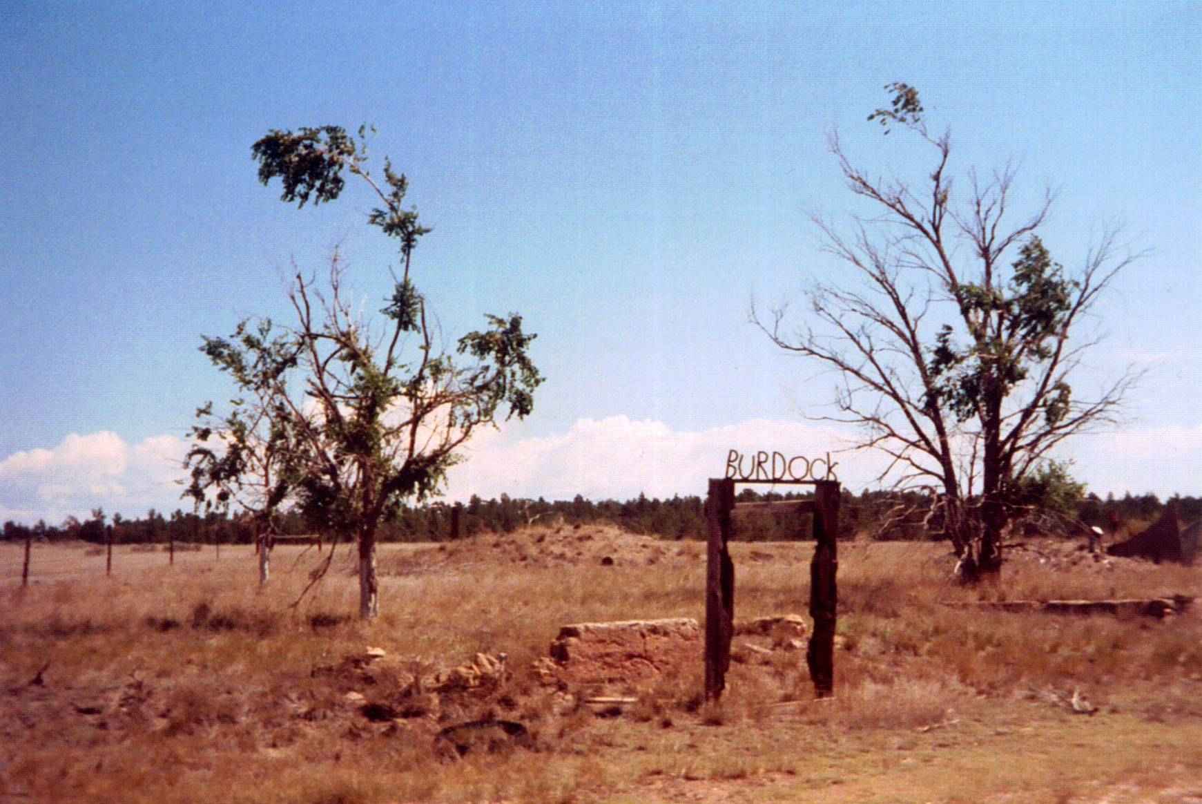 I took this photo myself in the early 2000s. Summary I took this photo myself in the early 2000s.